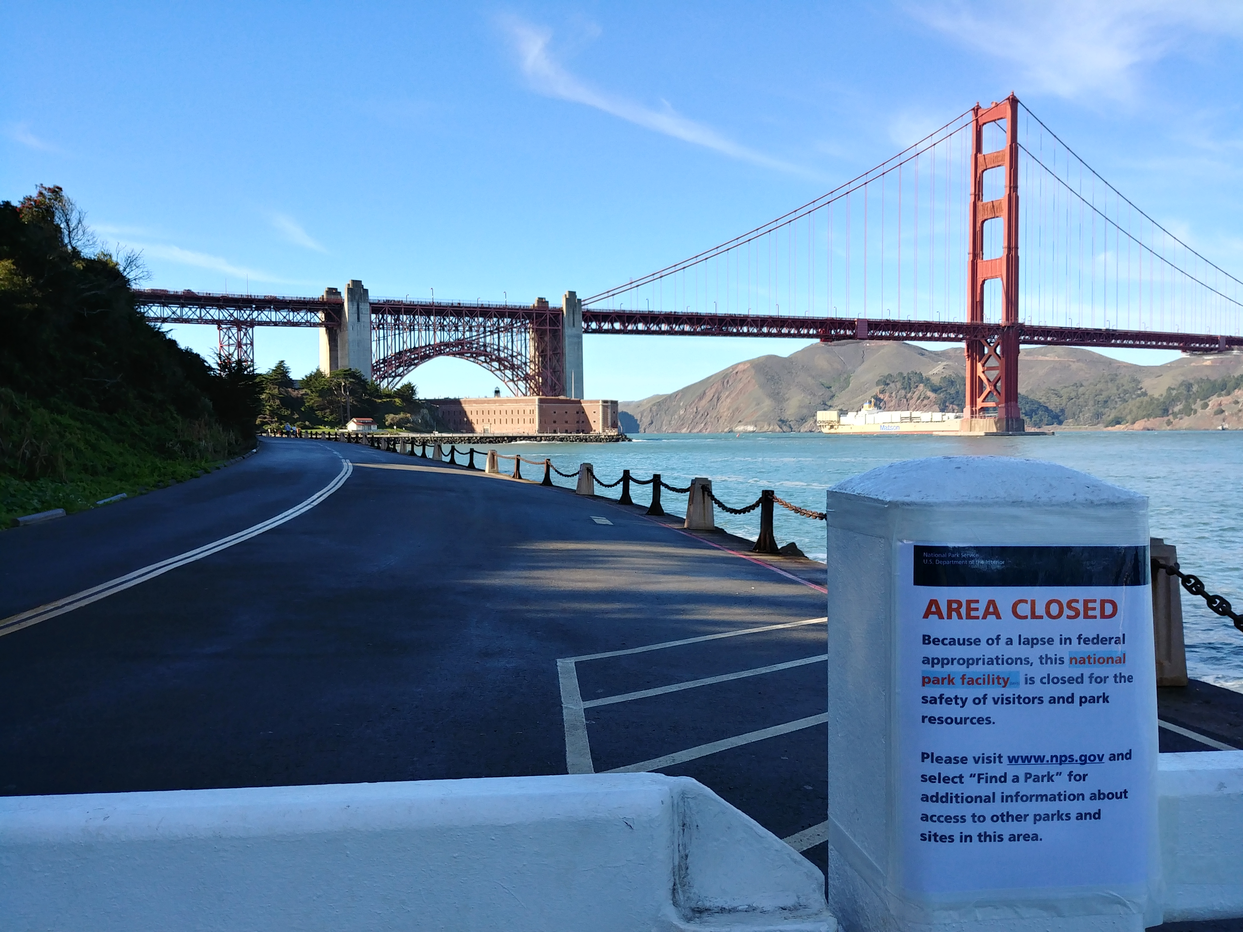 Photo of the road to Fort Point with a sign about the government shutdown in the foreground.